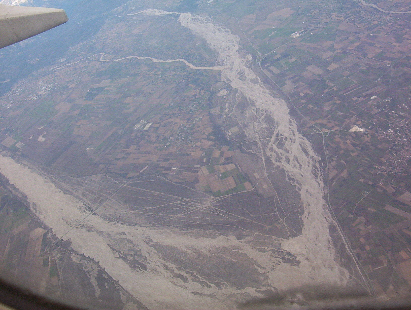 A view of the Magredi, the big riverbeds in Province of Pordenone, Friuli-Venezia Giulia, Italy. The photo was taken by Trevirgola on December 2004.